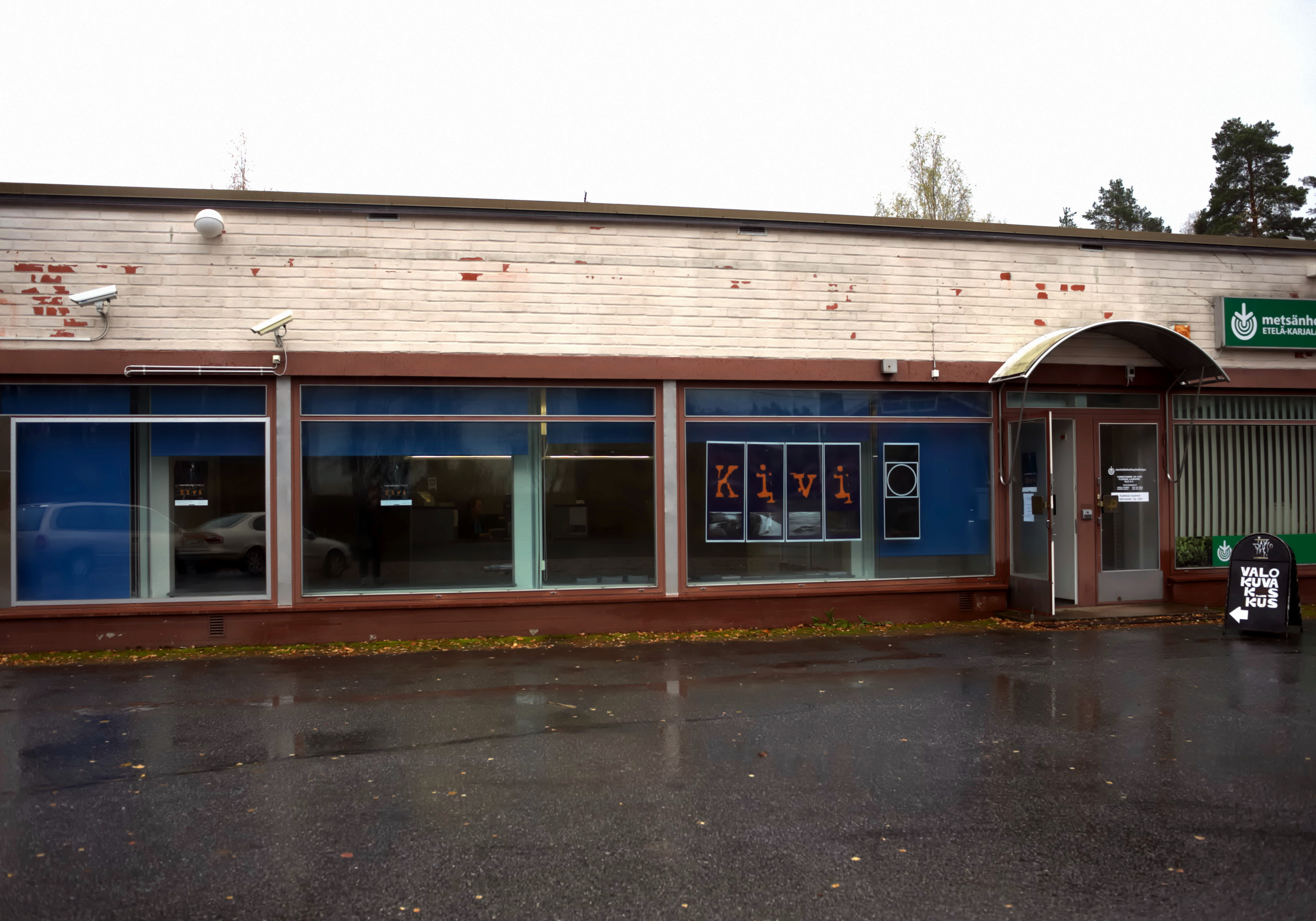 Annual Exhibition of the Association of Finnish Camera Clubs in Ylämaa, Finland 2014